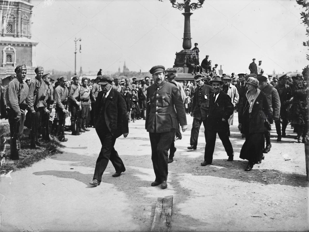 Vladimir Lenin (left) and Anatoly Lunacharsky (right) inspect the guard of honor on the way to Liberated Labor monument erection.